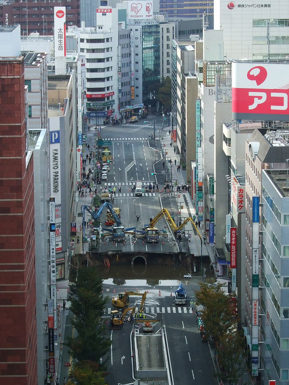 Hakataekimae Avenue near Hakata Station caved in on November 8, 2016, Hakata Ward, Fukuoka City, Fukuoka, Japan. The sinkhole is filled with water. I took this photo at the rooftop of Hakata Station JR Hakata City on Nov. 9 2016.